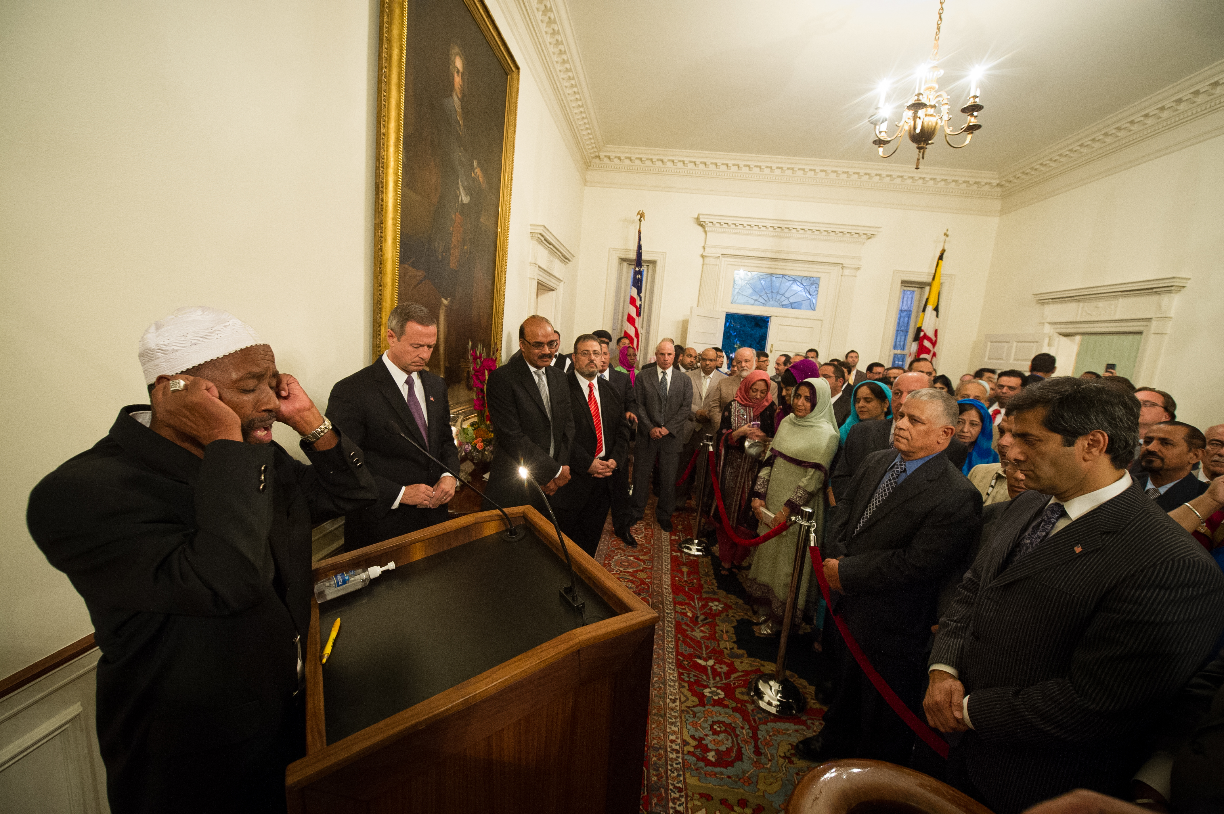 Governor Host Ramadan Reception. by Jay Baker at Annapolis, MD.